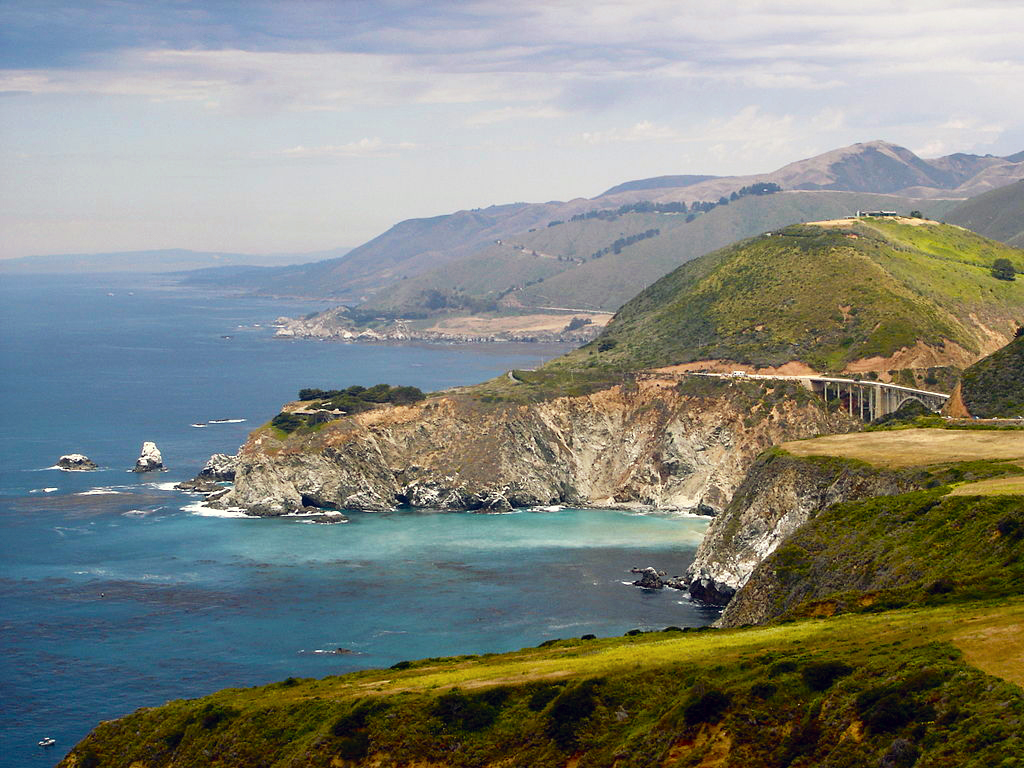 A view of the Big Sur coast including the Bixby bridge